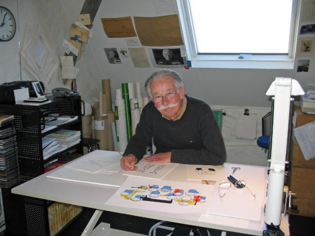 Picture of Dick Bruna in his studio.